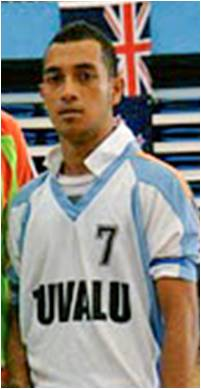 Andrew_Taufaiua